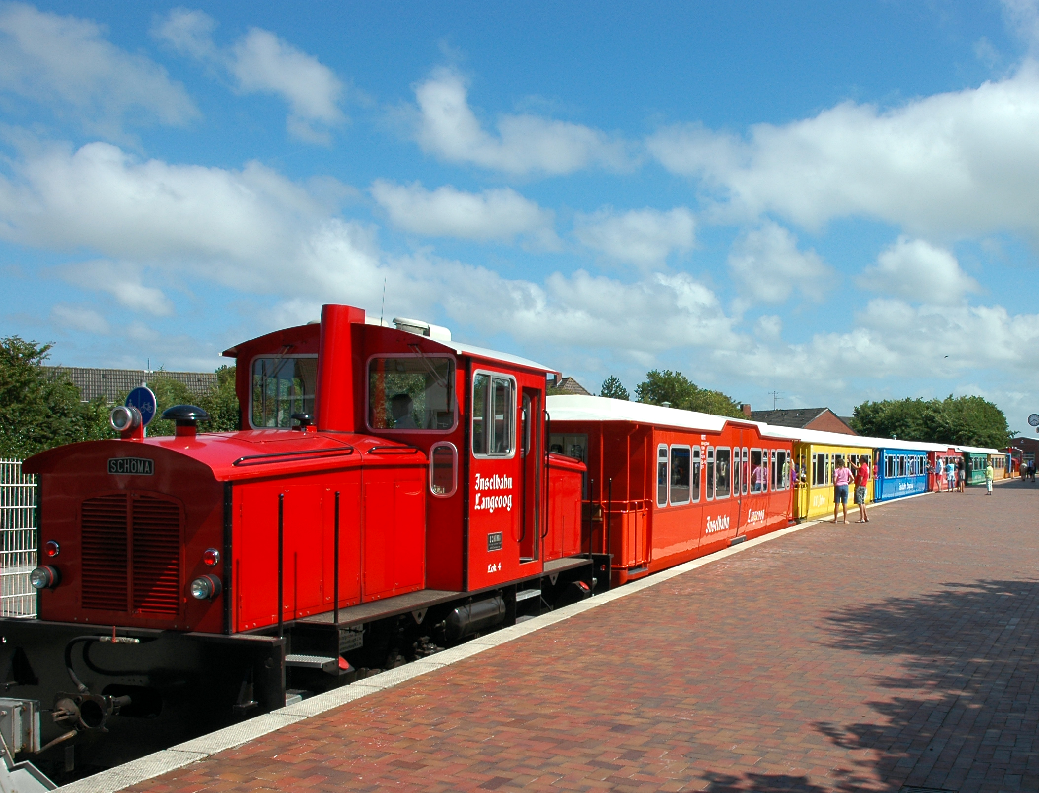 Island Train Langeoog